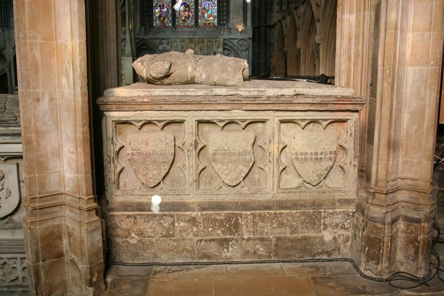 Chest-tomb monument and effigy of Nicholas de Cantilupe, 3rd Baron Cantilupe (d.1355), Angel Choir, Lincoln Cathedral. Effigy much mutilated, missing head, arms and legs. Arms shown are Cantilupe of Greasley, Nottinghamshire: Gules, a fess vair between three leopard's faces jessant-de-lys or.